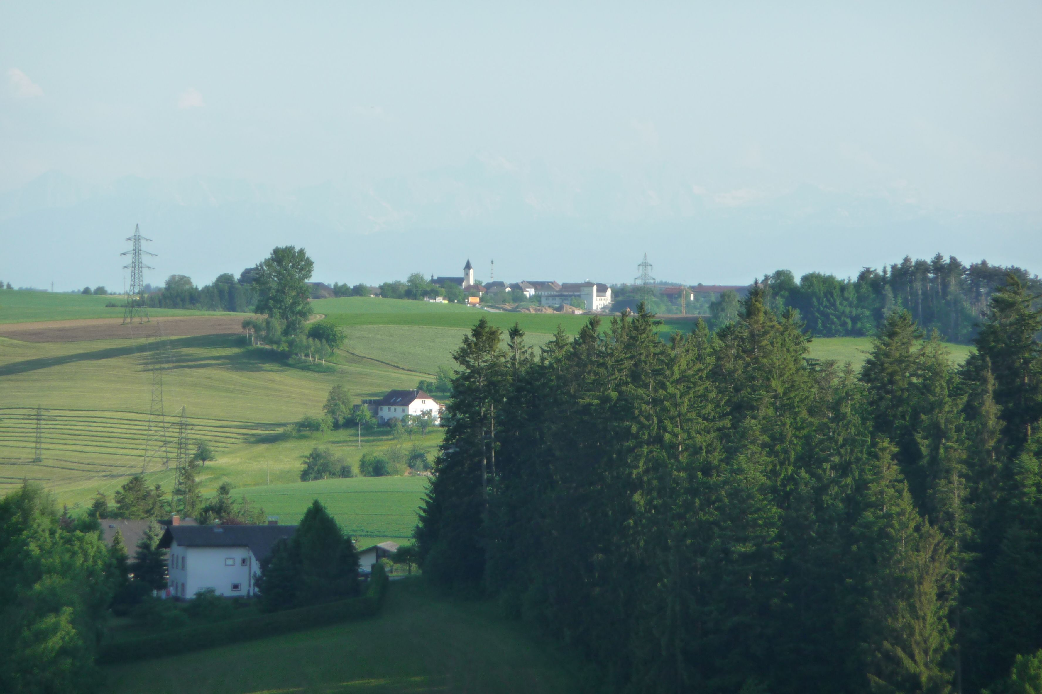 View of Arnreit